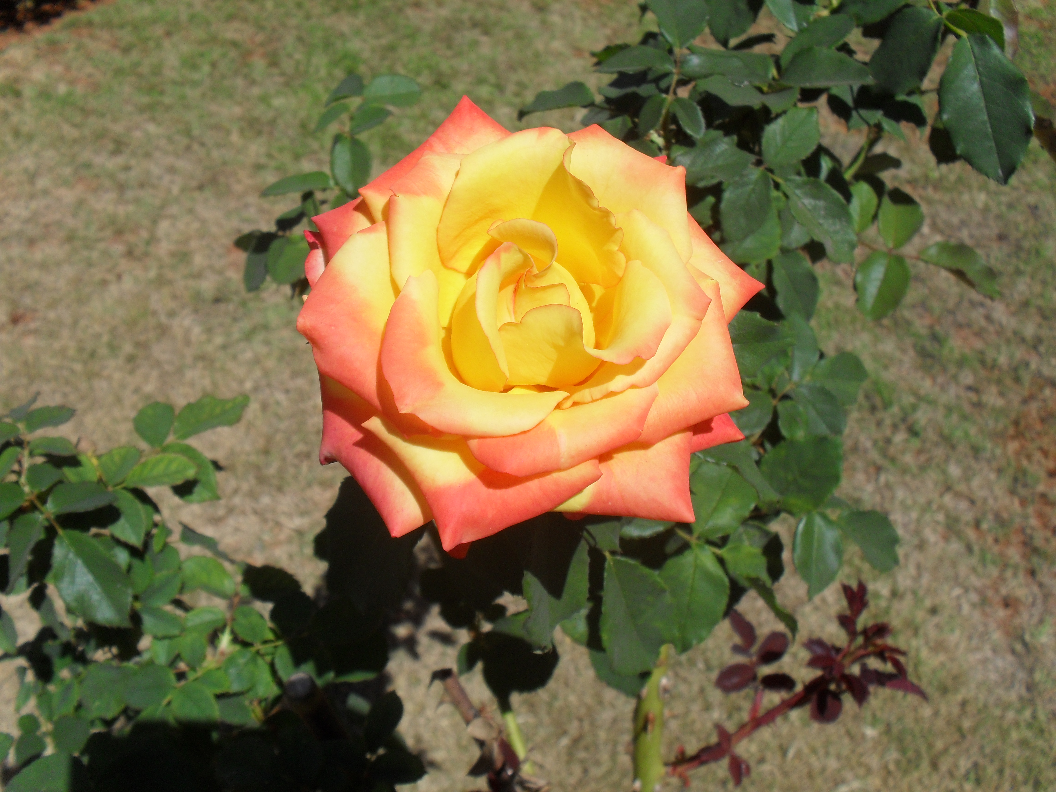 Some flowers I photographed A rose from a garden in Brasília, Brazil